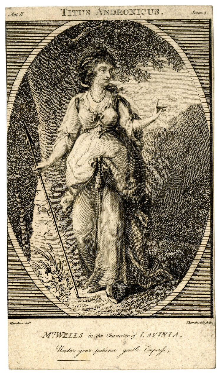 Mary Wells (fl. 1781–1812), English actress, as Lavinia in Titus Andronicus.